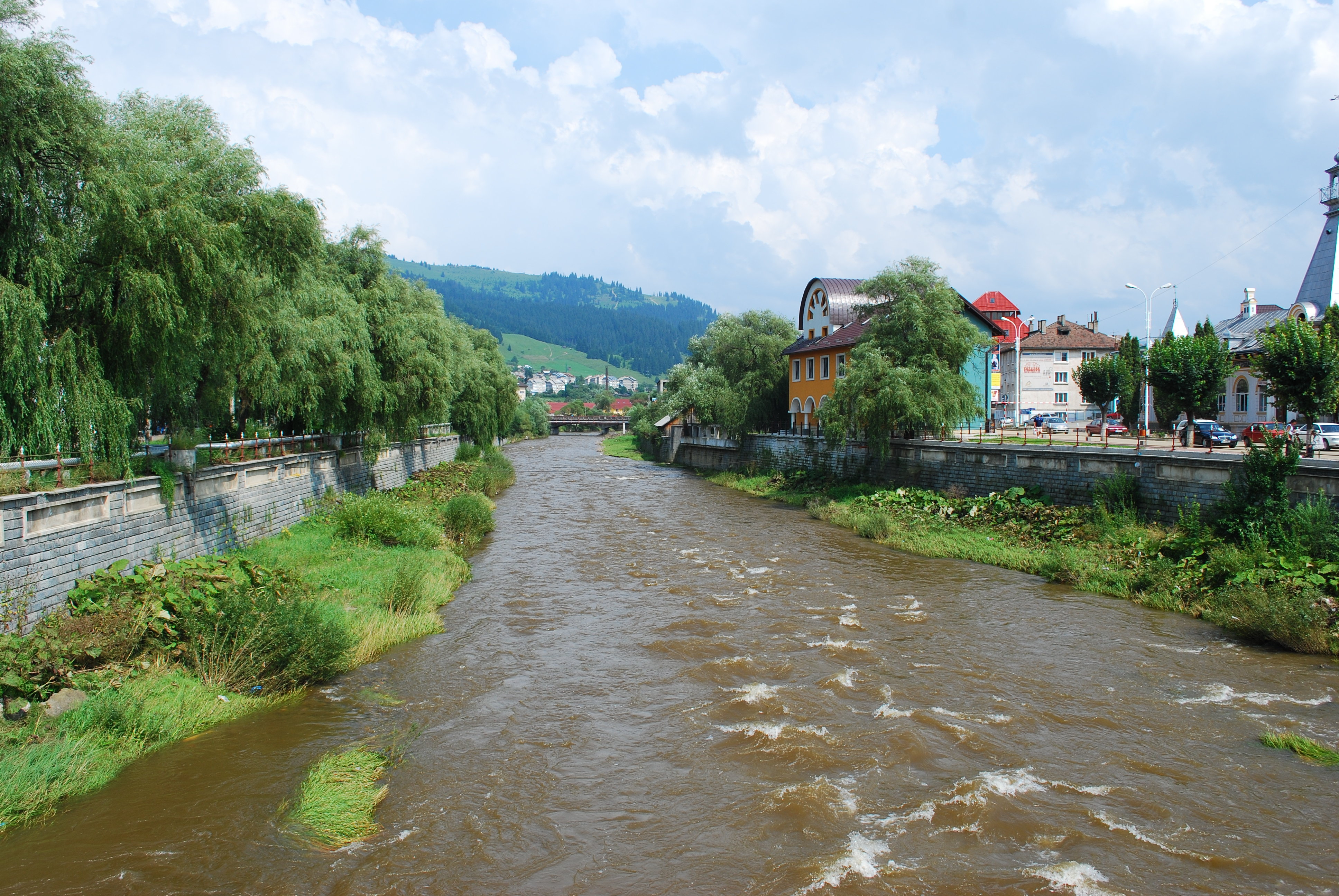 Dorna river in Vatra Dornei, Romania